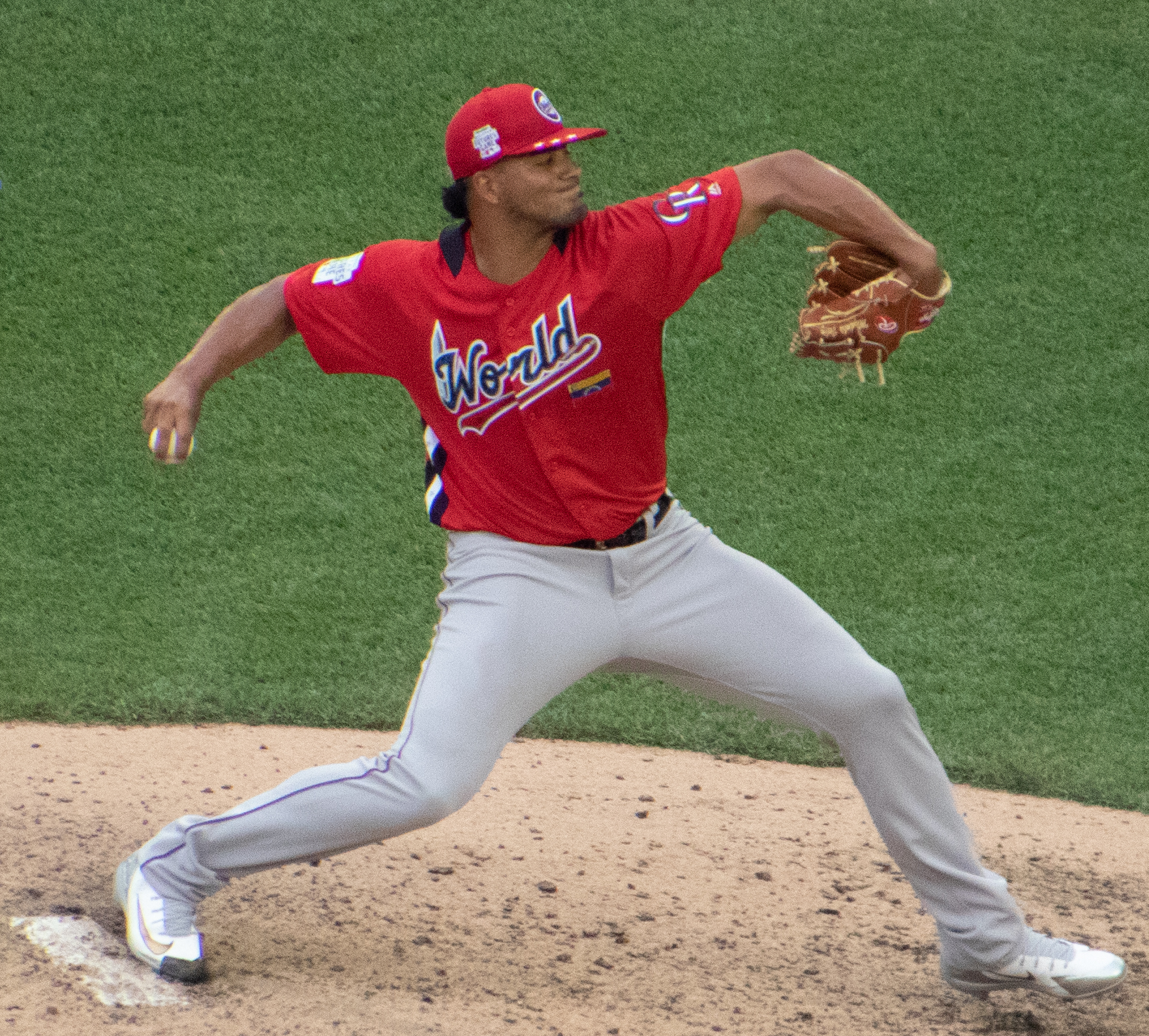 Jesús Tinoco of the world team delivers a pitch during the 2018 All-Star Futures Game at Nationals Park in Washington, D.C.